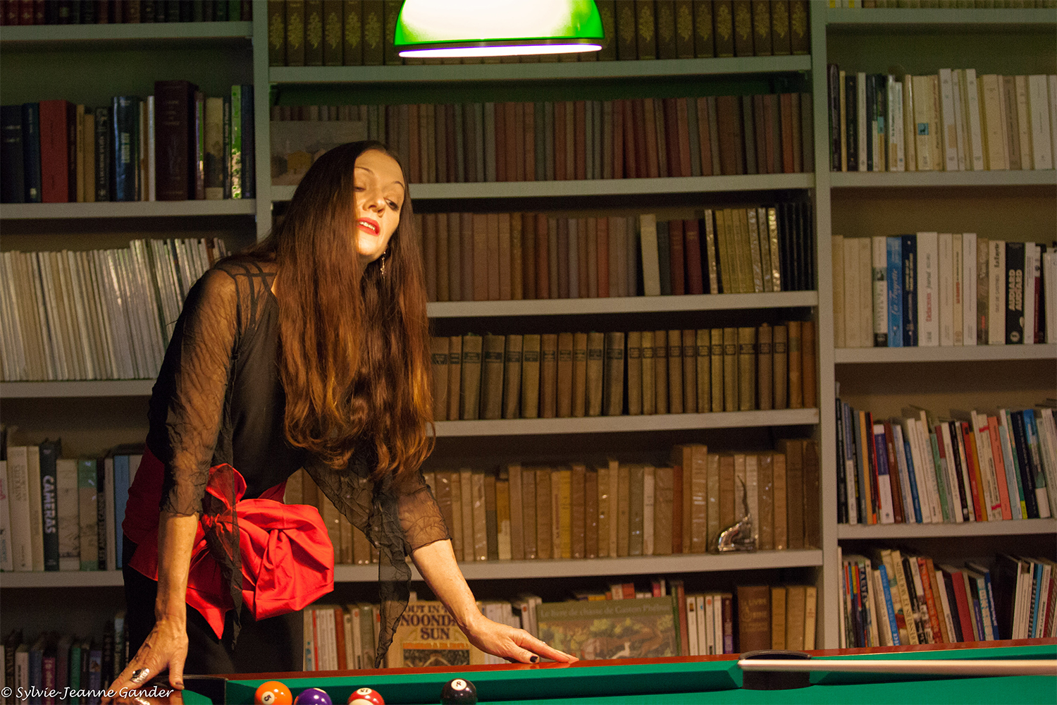 Dijon France 2016 Photographer Sylvie-Jeanne Gander